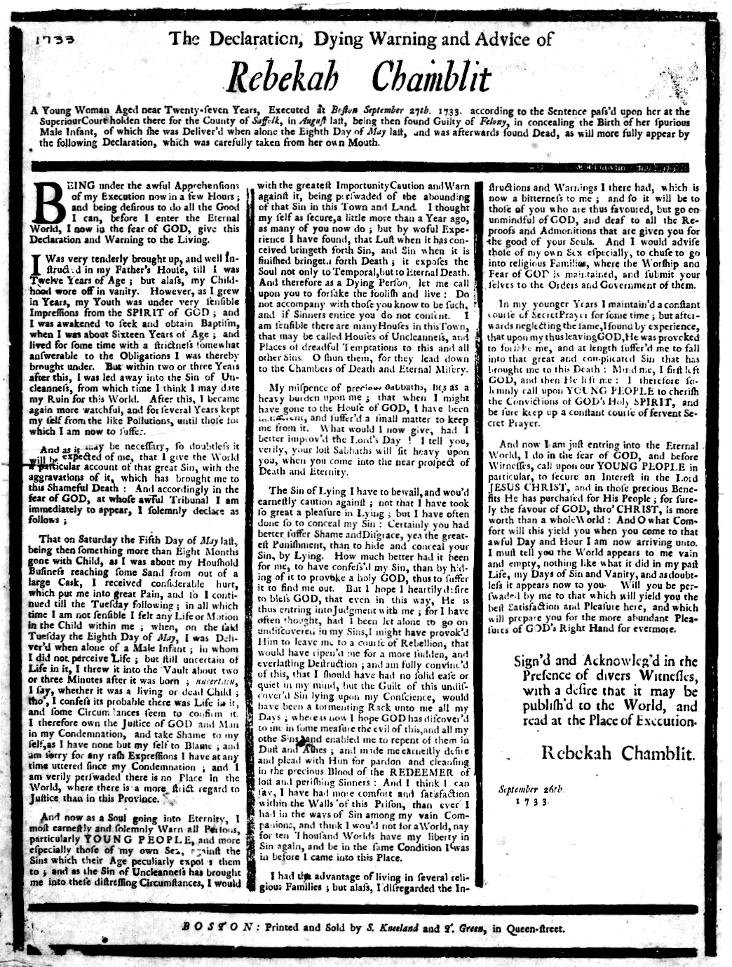 The declaration, dying warning and advice of Rebekah Chamblit. A young woman aged near twenty-seven years, executed at Boston September 27th. 1733. According to the sentence pass'd upon her at the Superiour Court holden there for the county of Suffolk, in August last, being then found guilty of felony, in concealing the birth of her spurious male infant, of which she was delivered when alone the eighth day of May last, and was afterwards found dead, as will more fully appear by the following declaration, which was carefully taken from her own mouth.